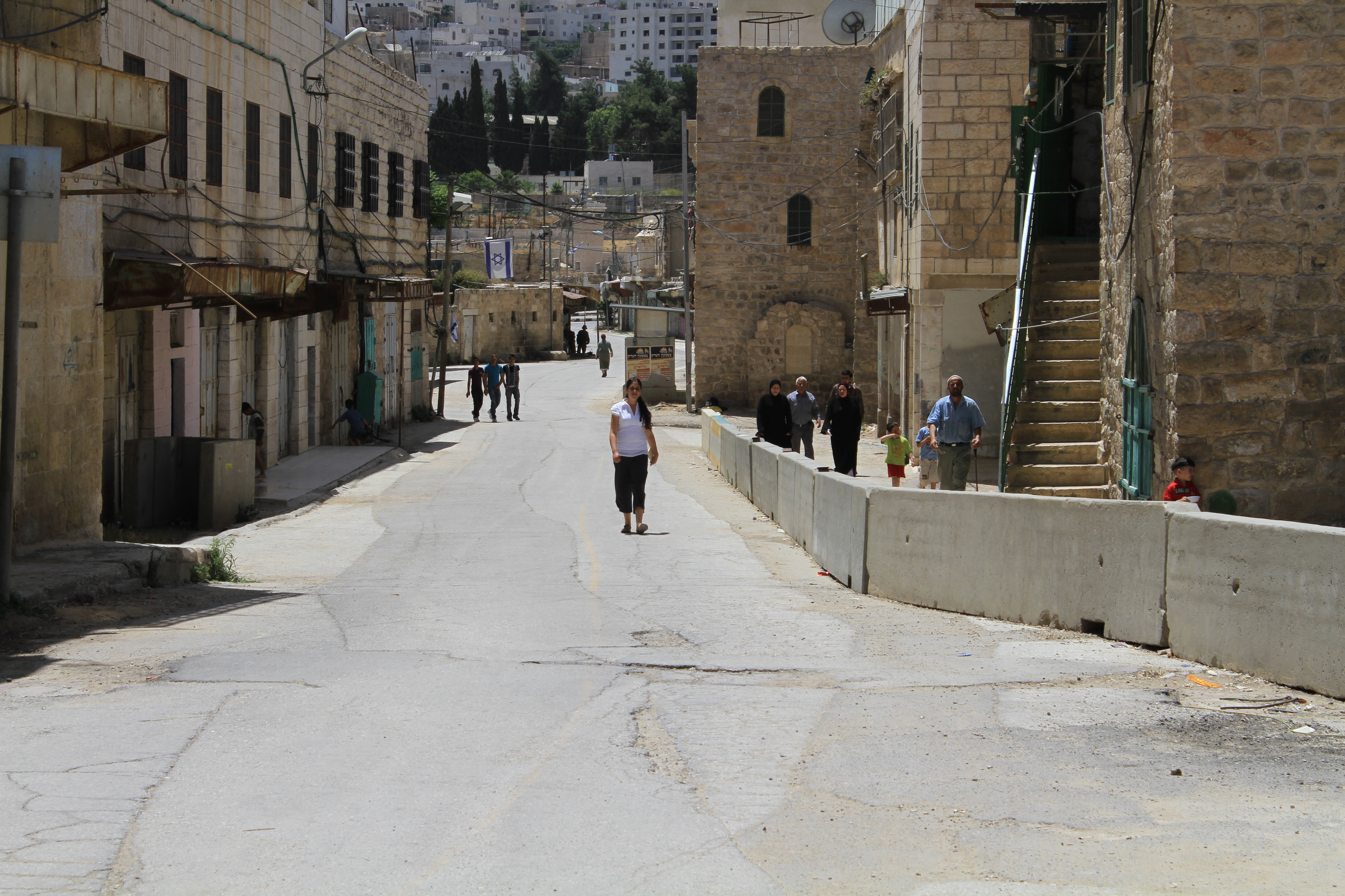 Shuhada Street in Hebron with closed Palestinian shops. Forbidden for Palestinians. Only Israeli settlers and tourists are allowed. Photo: 15 May 2010.